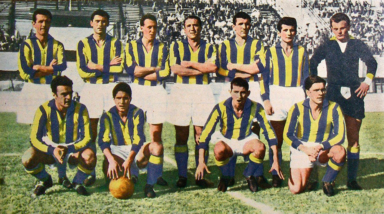 A line-up of Parma A.S. in the 1956–57 season. From left to right, standing: B. Alfier, C. Darni, G. Patrucco, Č. Vycpálek (captain), I. Cocconi, P. Erba, E. Magnanini; crouched: S. Sangiorgi, G. Convalle, U. Giacchetti, P. Miniussi.